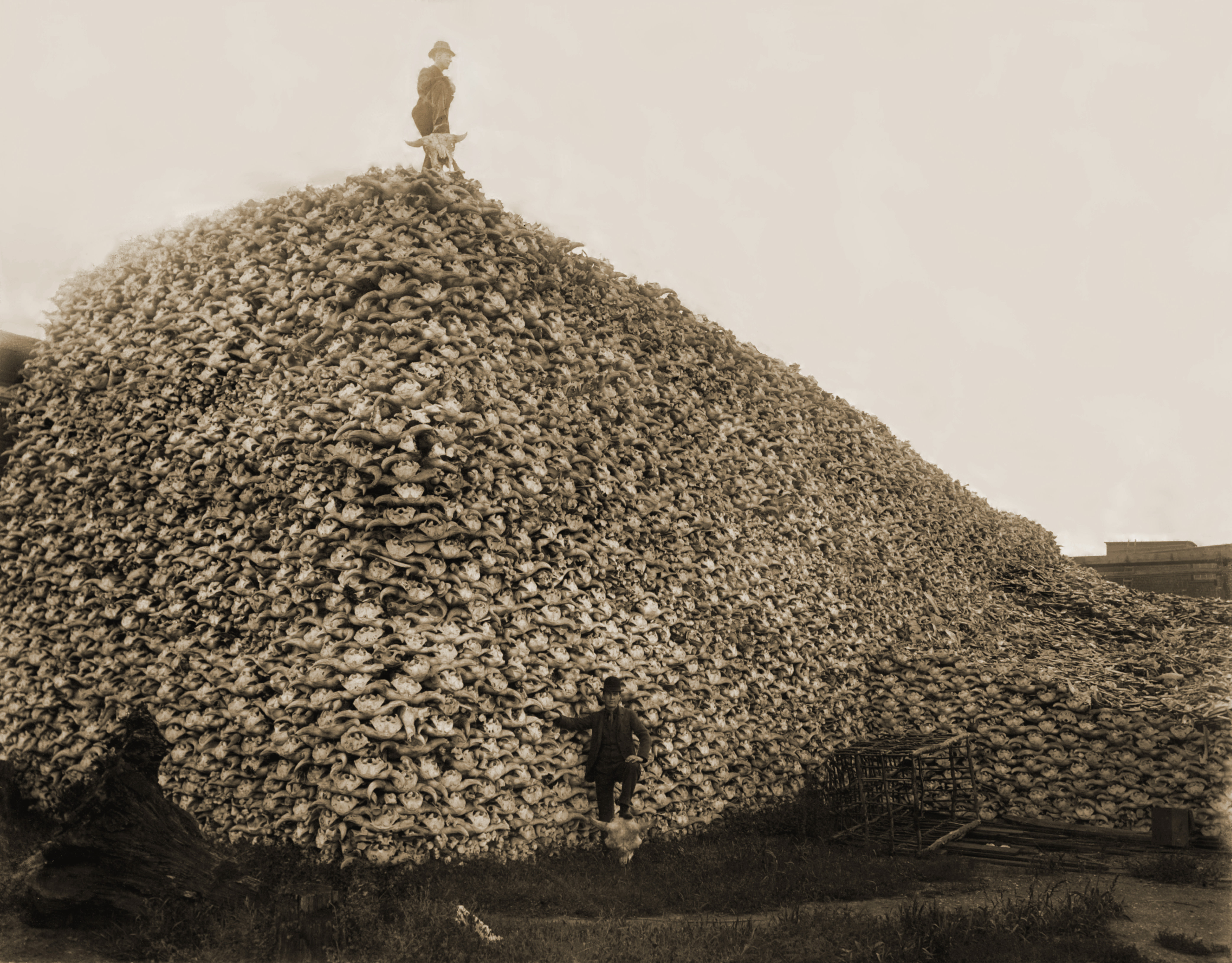 Photograph 1892 of a pile of American bison skulls waiting to be ground for fertilizer.